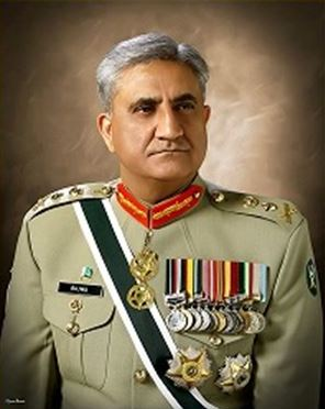 Official photograph of General Qamar Javed Bajwa, 10th Chief of Army Staff of the Pakistan Army